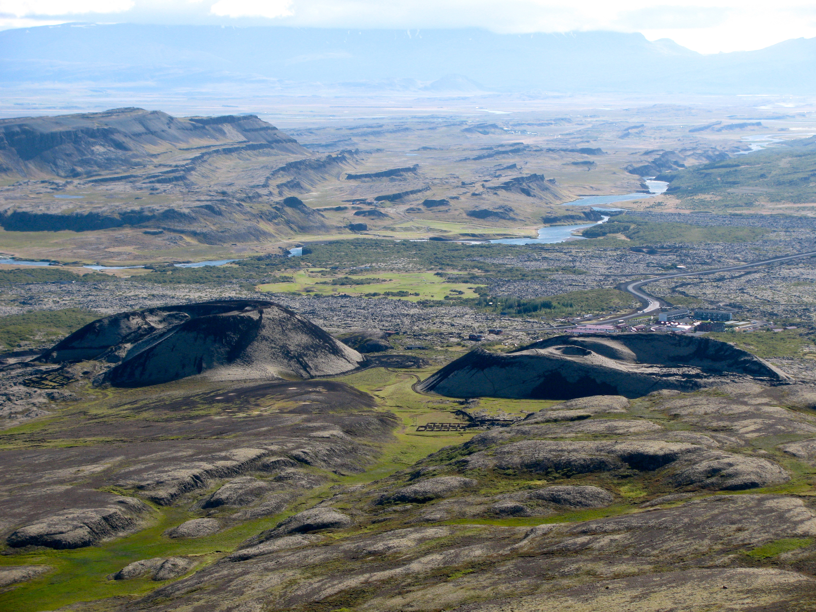 Grábrók til the left and Grábrókarfell to the right